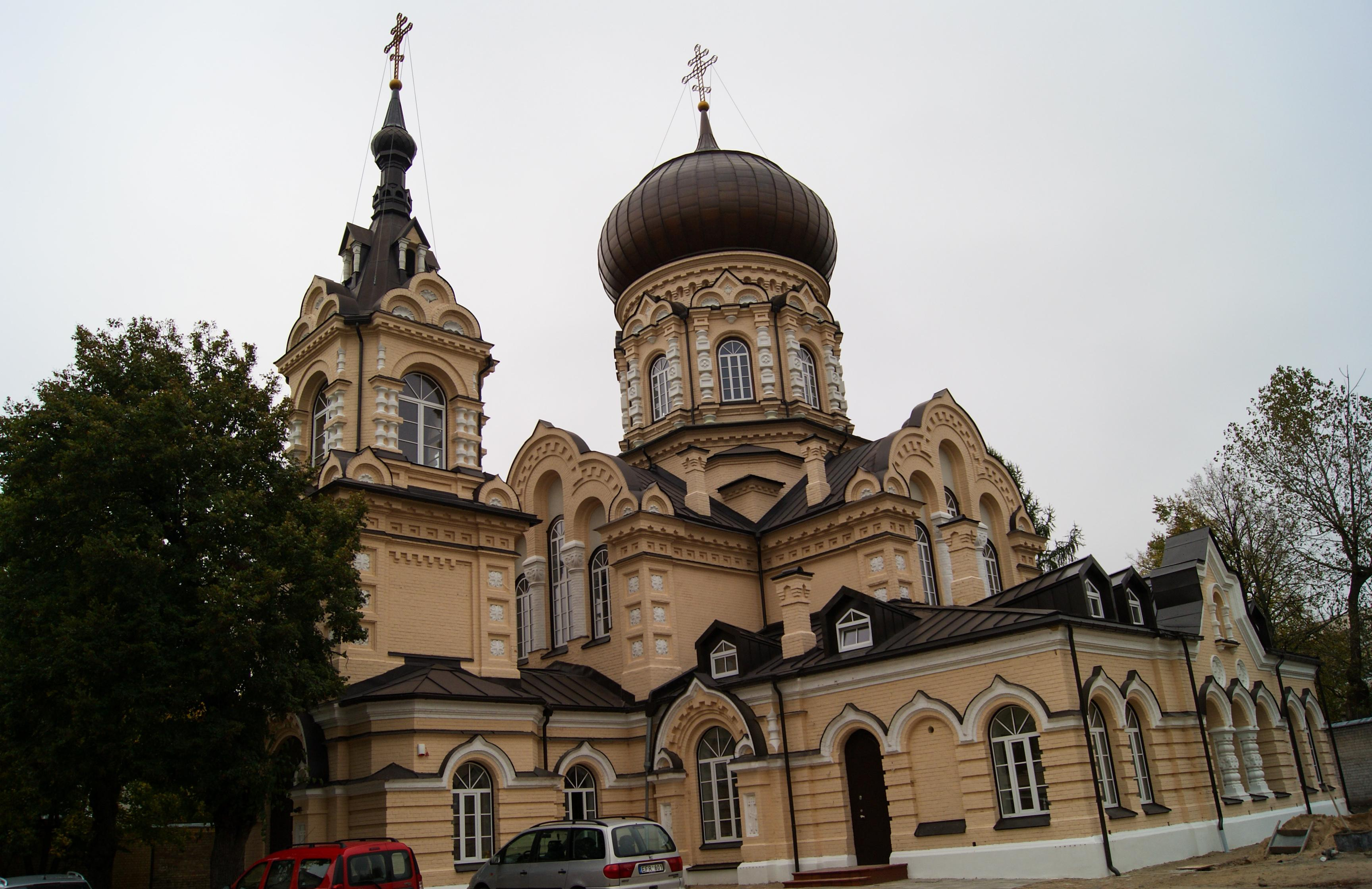 Church of St. Alexander Nevsky after the reconstruction in Vilnius, Lithuania.